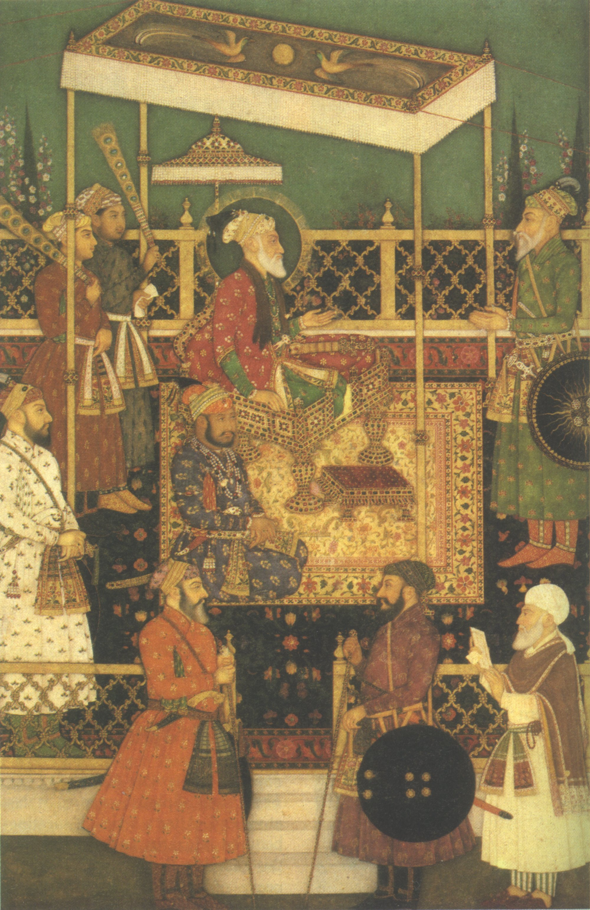 This painting, from an album complied for Shuja al-Dawla, a nawab of Oudh, was produced at the end of the period of Mughal greatness: Mughal power and wealth and hence artistic patronage and production peaked during the reigns of Akbar (r.1556-1605), Jahangir (r.1605-27), Shah Jahan (r.1628-57), and Awrangzib (r.1658-1707). Then, in 1739, the Iranian ruler Nadir Shah sacked Delhi, carrying back to Iran the riches of the Mughals – their library, treasury and even the fabled Peacock Throne. More than anything, this was a devastating psychological blow from which the Mughals never recovered. Source: p632, Chronicle of the World. Editor: Jerome Burne. Held by the Chester Beatty Library, Dublin.